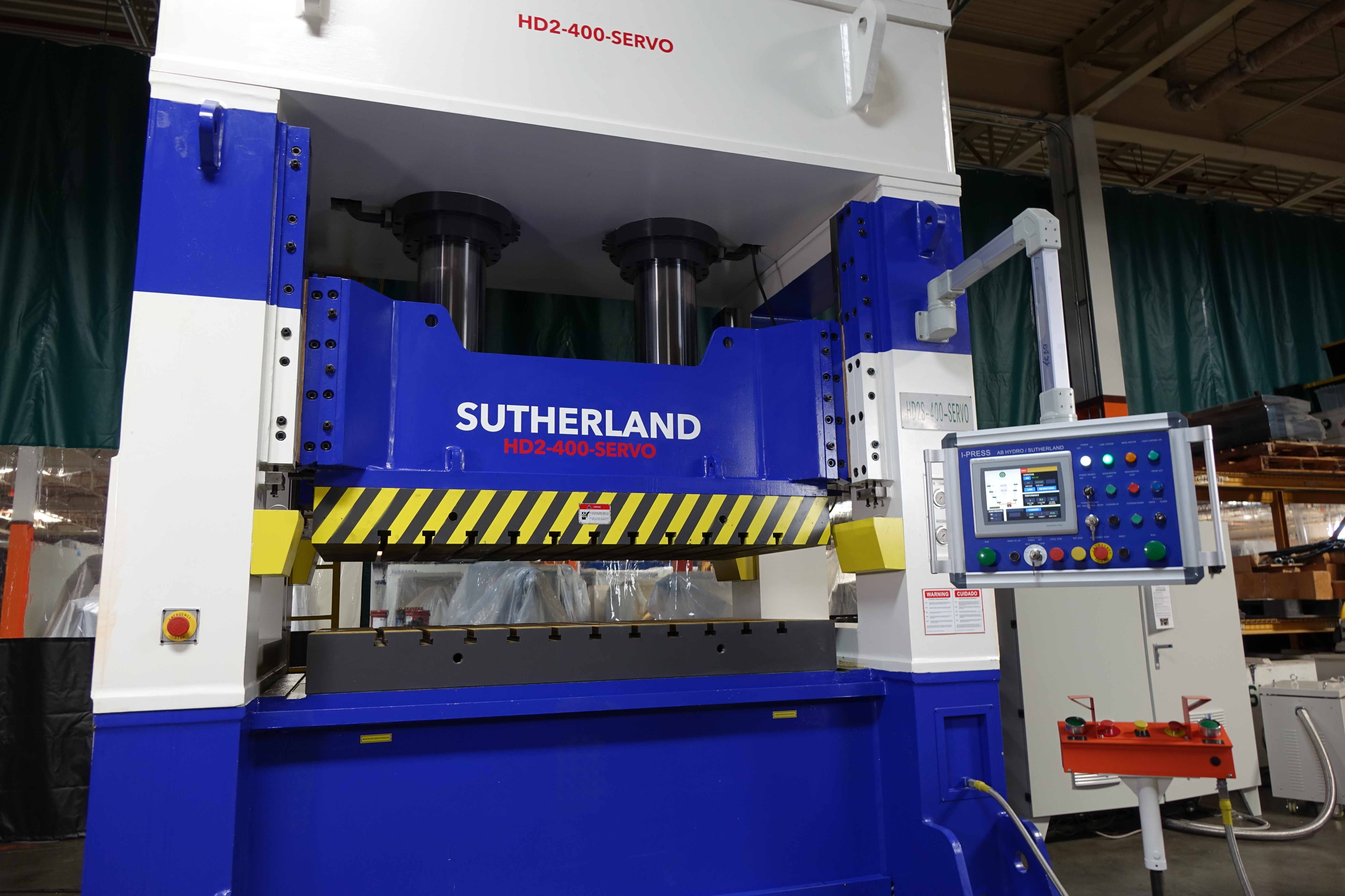 Example of a medium sized 440 ton servo hydraulic compression molding press with I-PRESS control